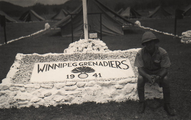 Winnipeg Grenadiers, 1941, Photo Property of Dave Durrant